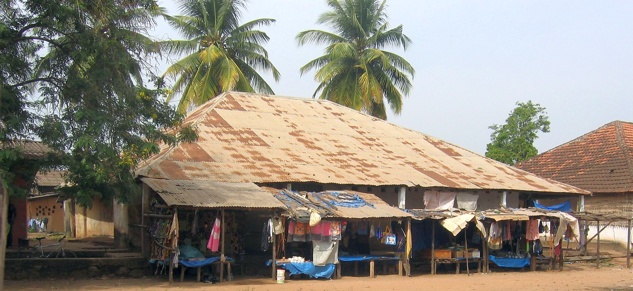 Small market in the city of Catió, Tombali Region, Guinea-Bissau